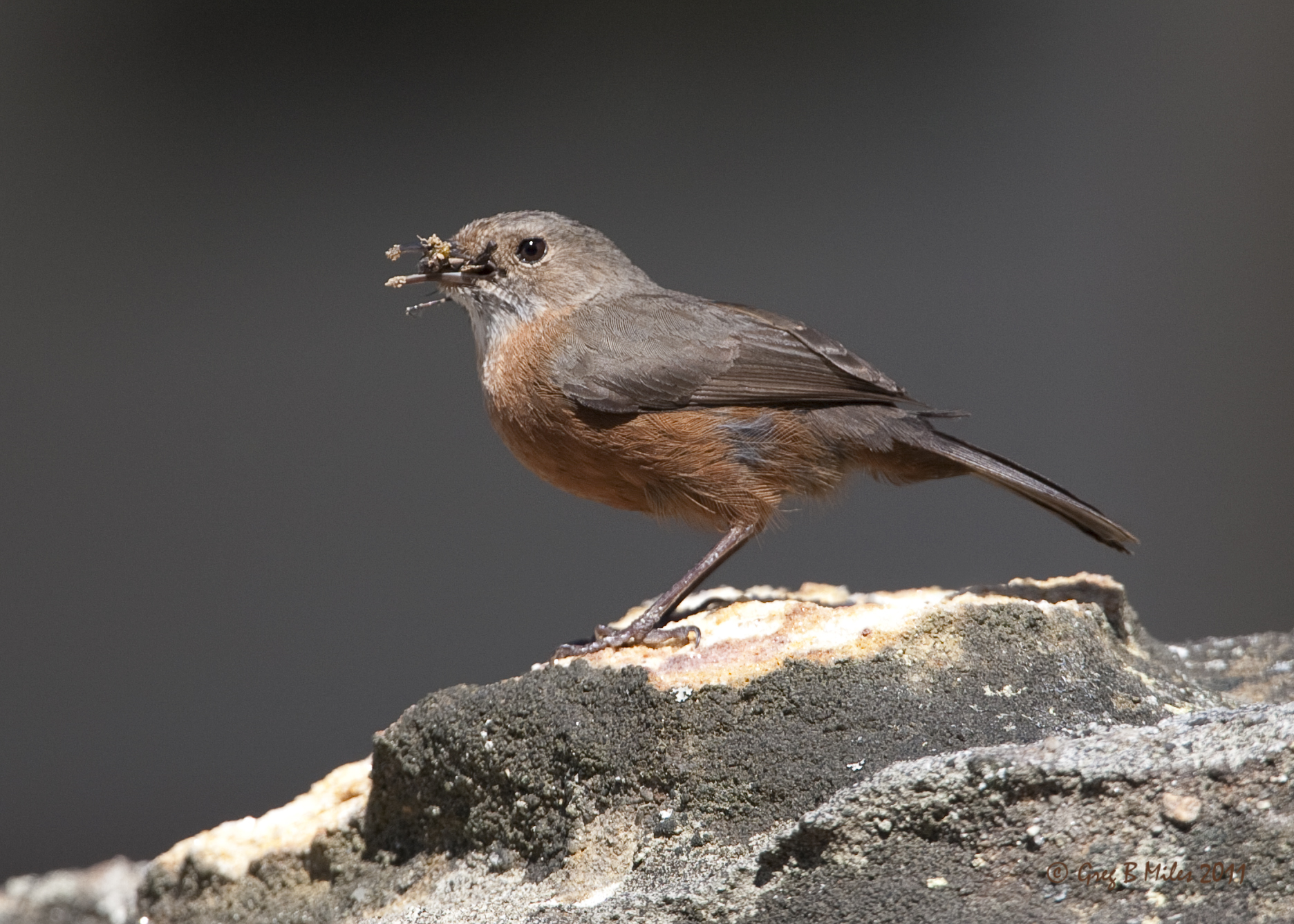 With a mouthful of food. Probably a spider. They nested in a storage shed on our property. They usually nest in sandstone caves in the Hawkesbury Sandstone areas around Sydney. They have quite a limited distribution. Their nest is quite an amazing construction hanging from the roof and with a cute hood over the entrance.